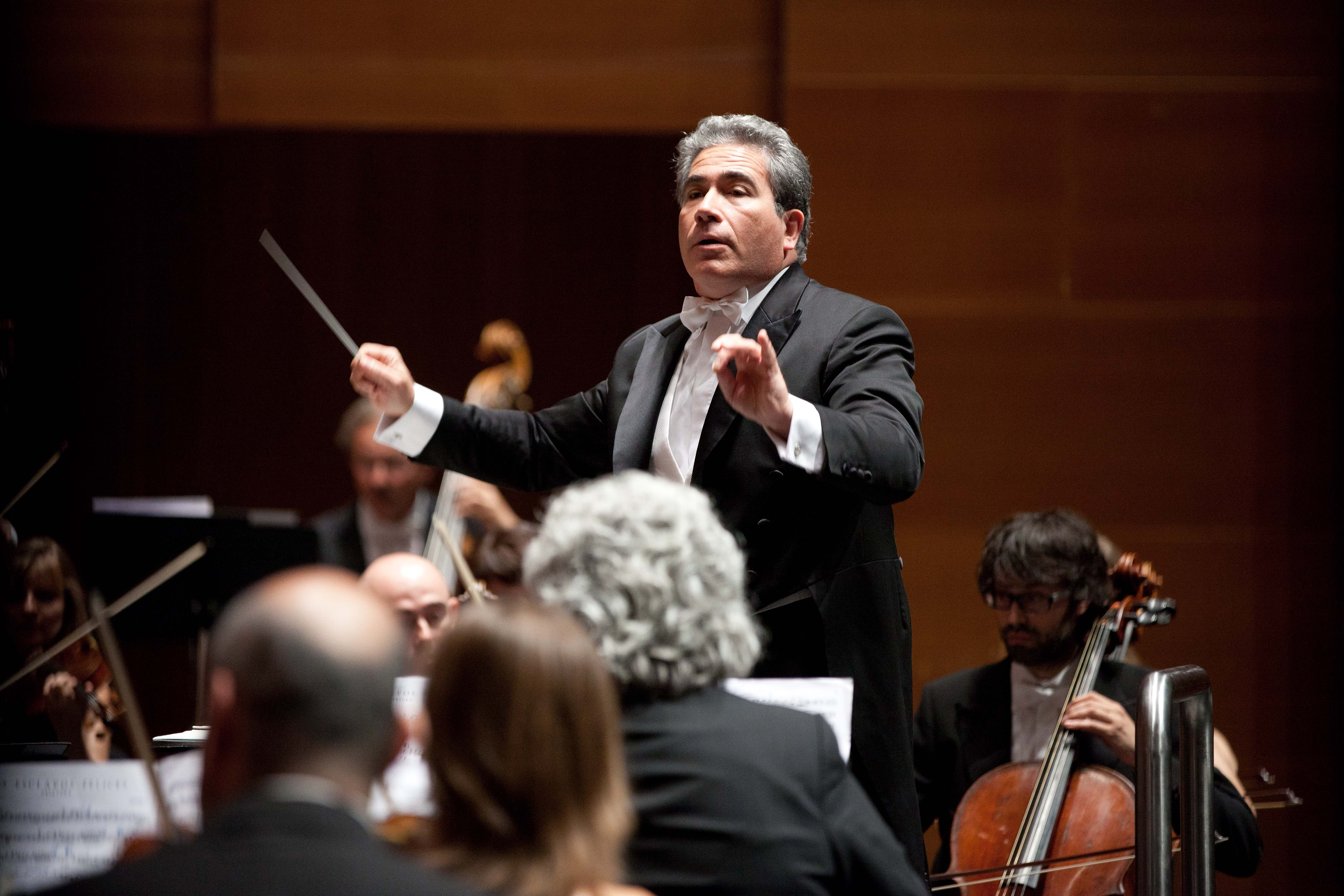 Italian conductor Carlo Rizzi at Quincena Musical de San Sebastián